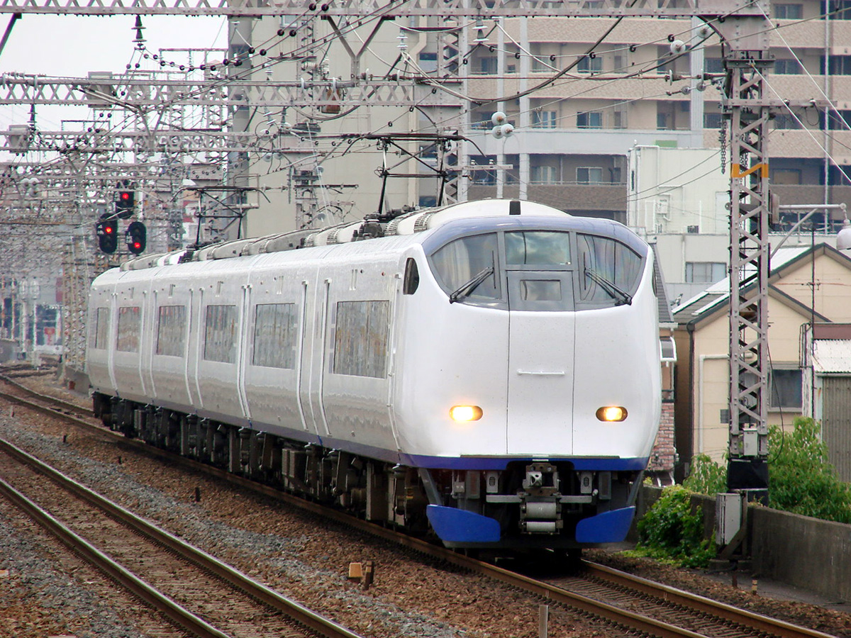 JR West series 281 as Limited Express "Haruka" on Umeda Freight Line